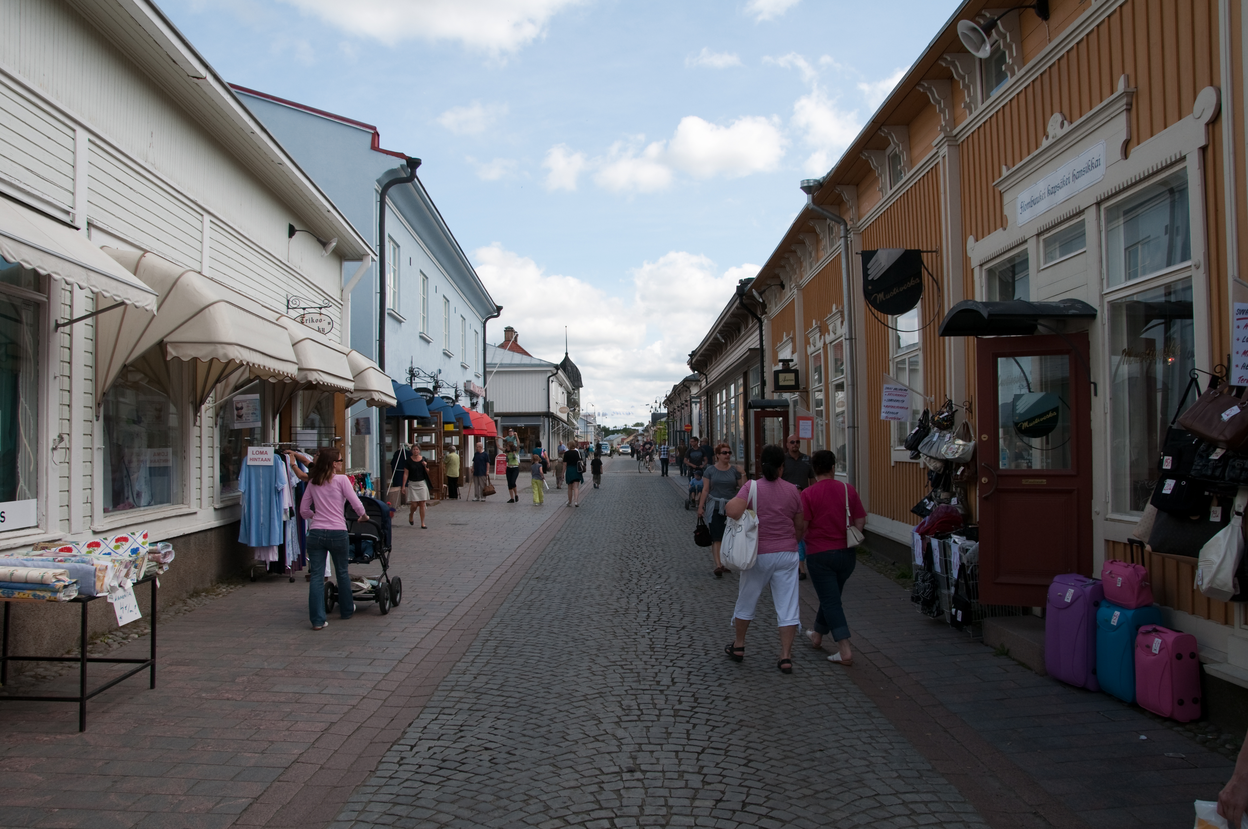 Sreet in old Rauma